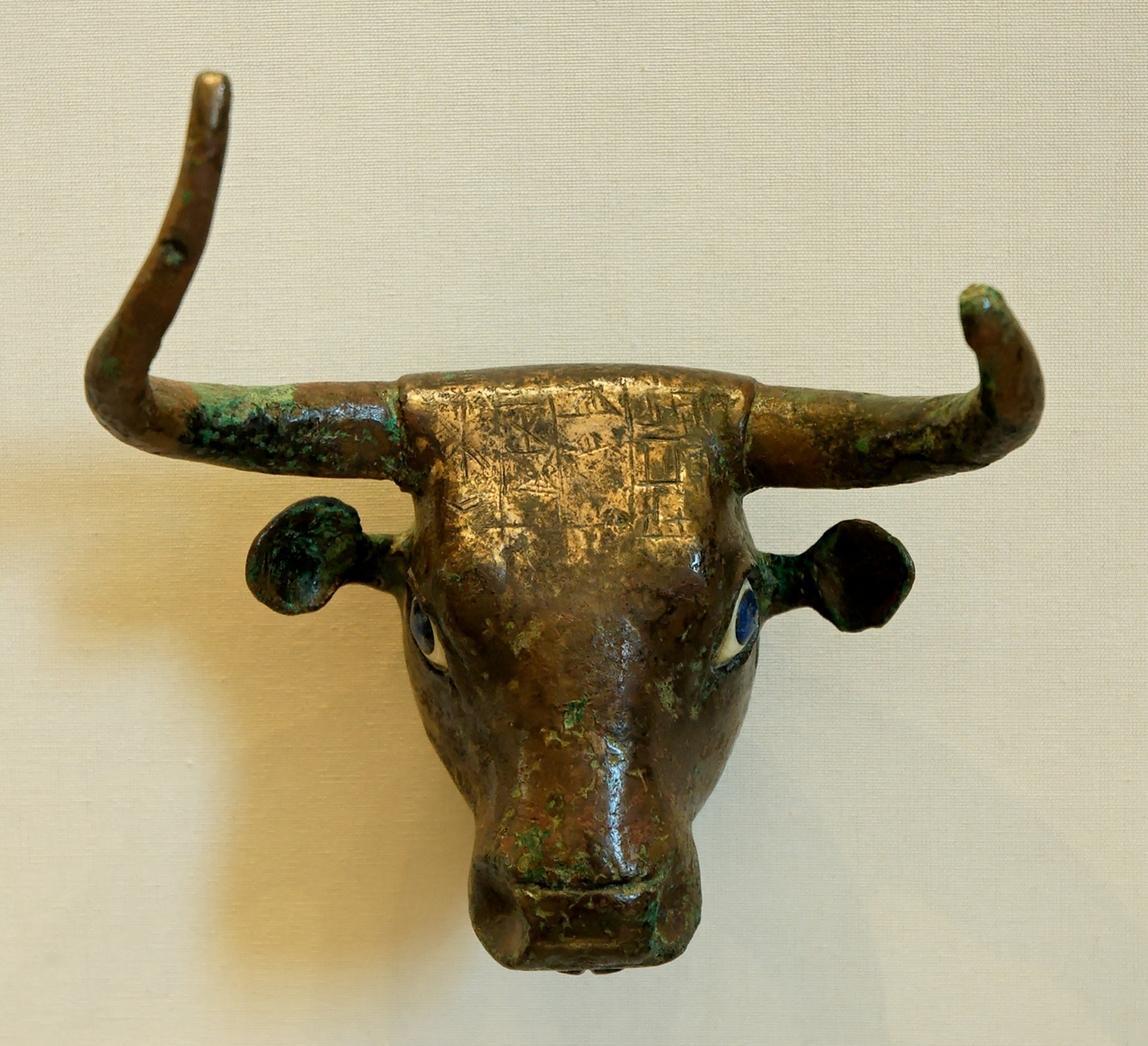 Bull head, probably affixed to the sound-chest of a lyre.